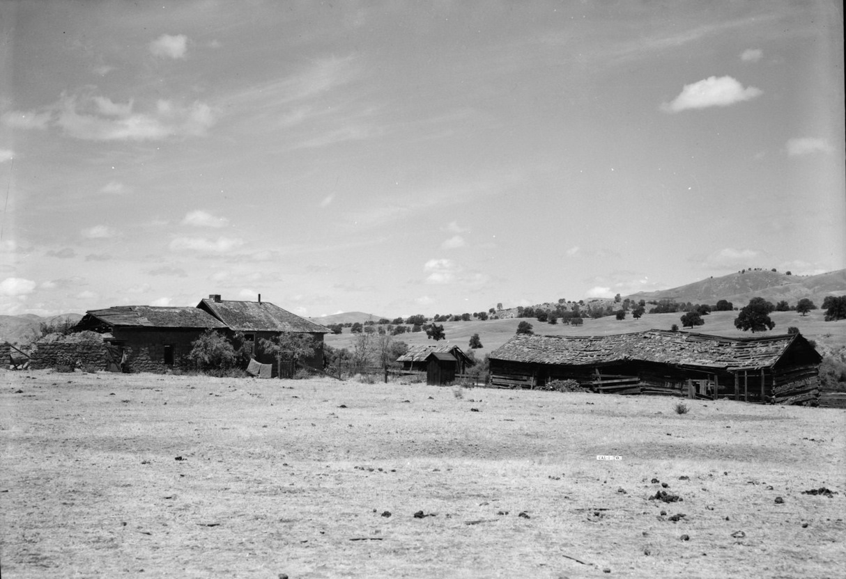 Historic American Buildings Survey Robert W. Kerrigan, Photographer Original- 1936 VIEW FROM EAST - Fort Miller, Lake Millerton, Millerton, Marin County, CA